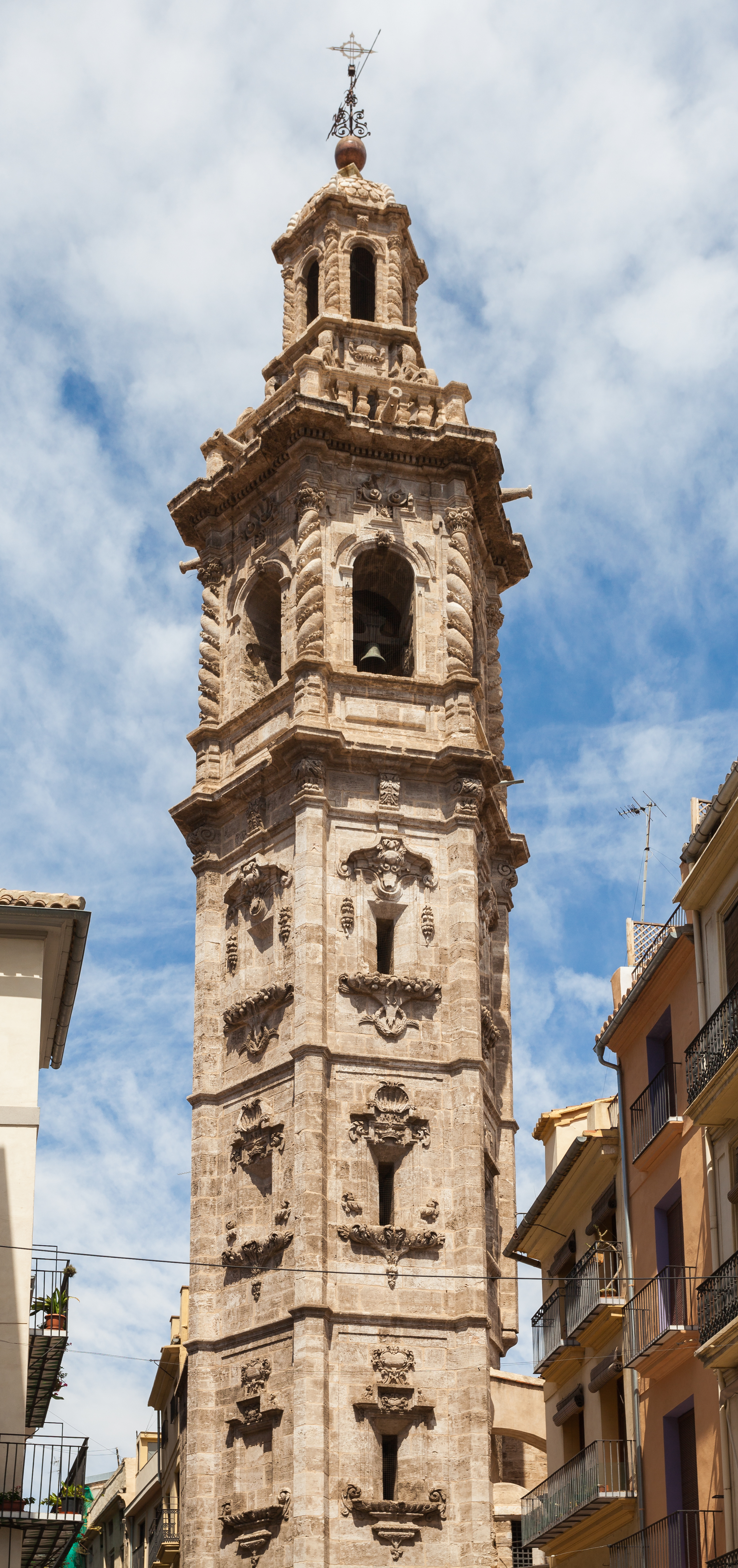 Tower of Santa Catalina, Valencia, Spain